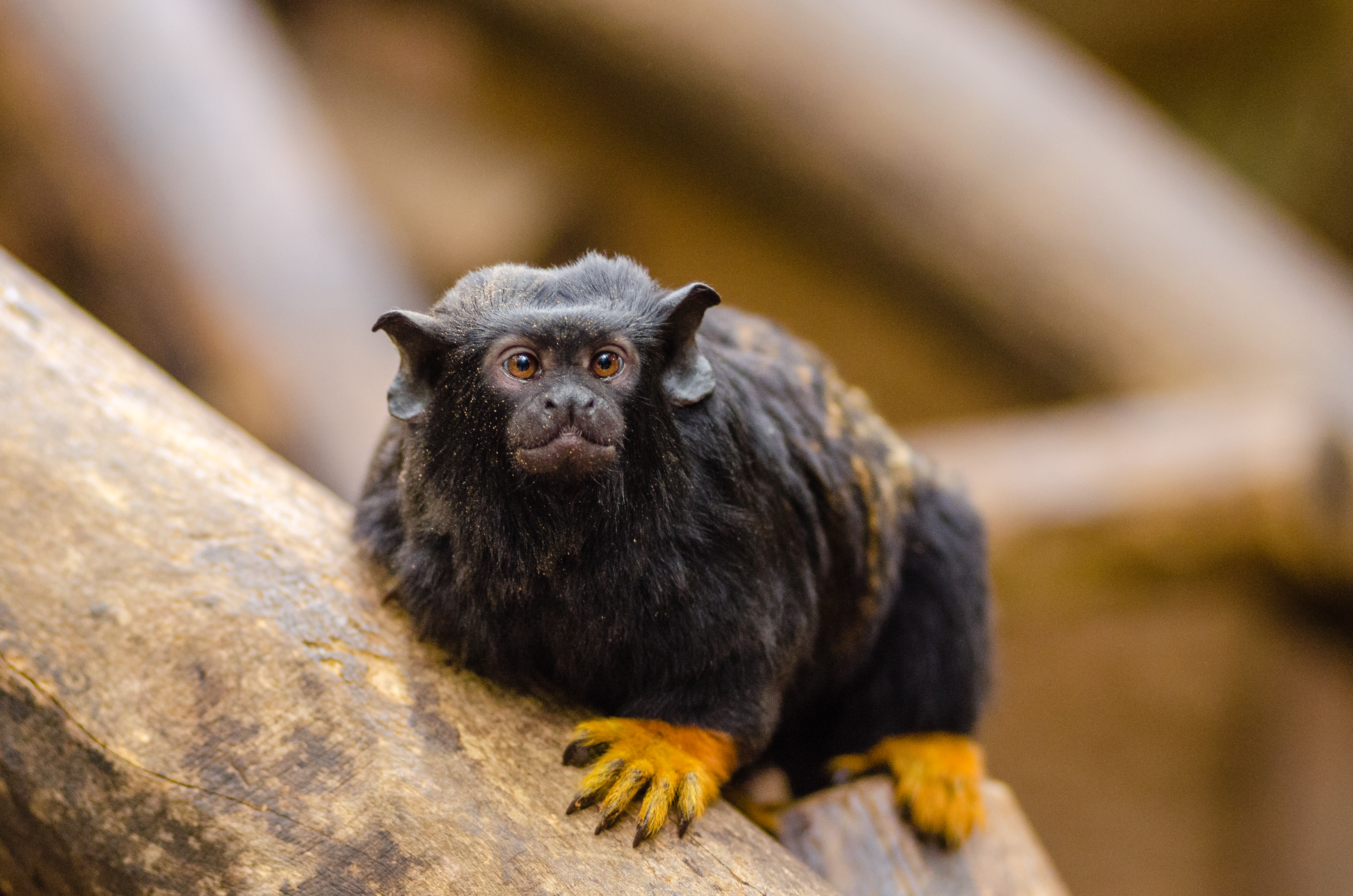 Red-handed tamarin